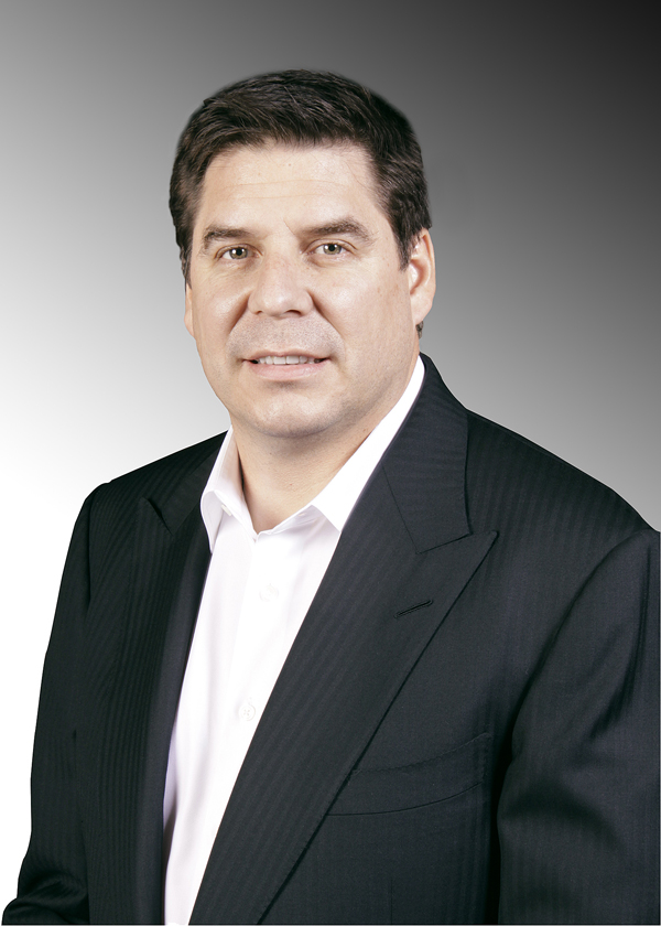 Headshot of Marcelo Claure